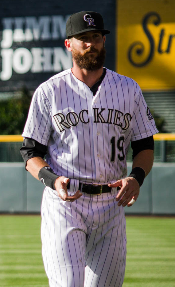 Charlie Blackmon